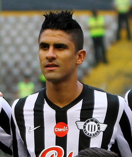 Santiago Tréllez. Guayaquil, Martes 3 de marzo del 2015 (ANDES).-Libertad de Paraguay enfrenta al Barcelona de Ecuador en el partido jugado en el estadio Monumental por Copa LibertadoresFoto:César Muñoz/ANDES